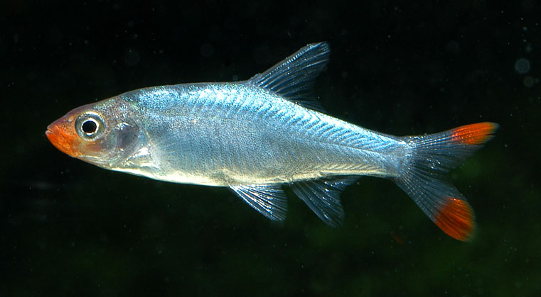 Young male Sawbwa resplendens. Aquarium photo.